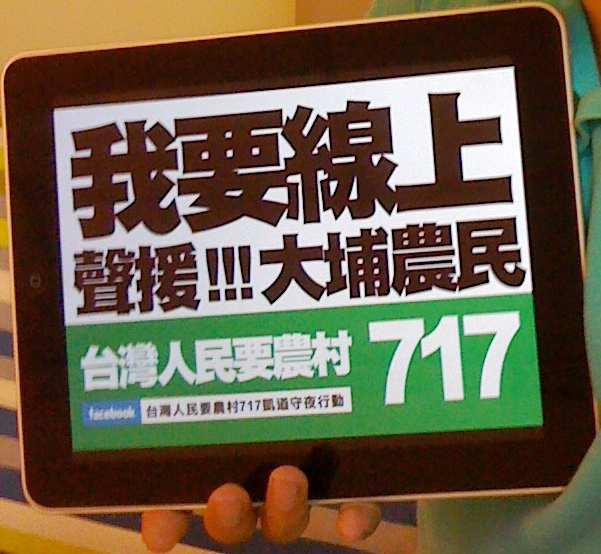 Protest on 2013/7/17